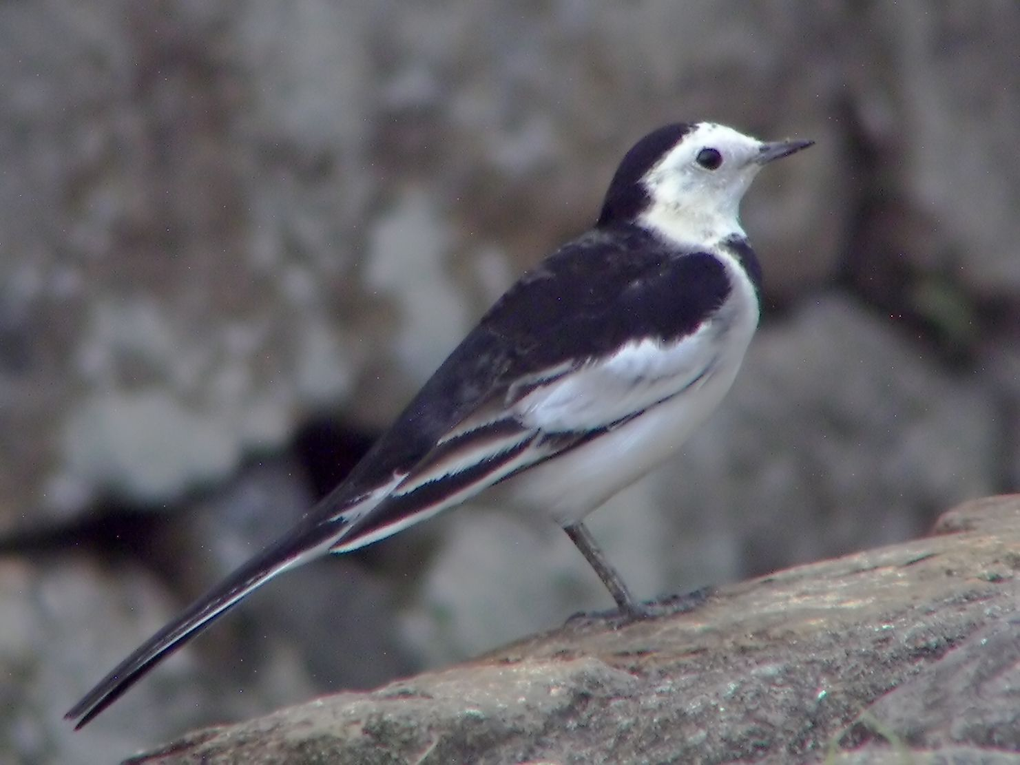 A White Wagtail in Hong Kong.